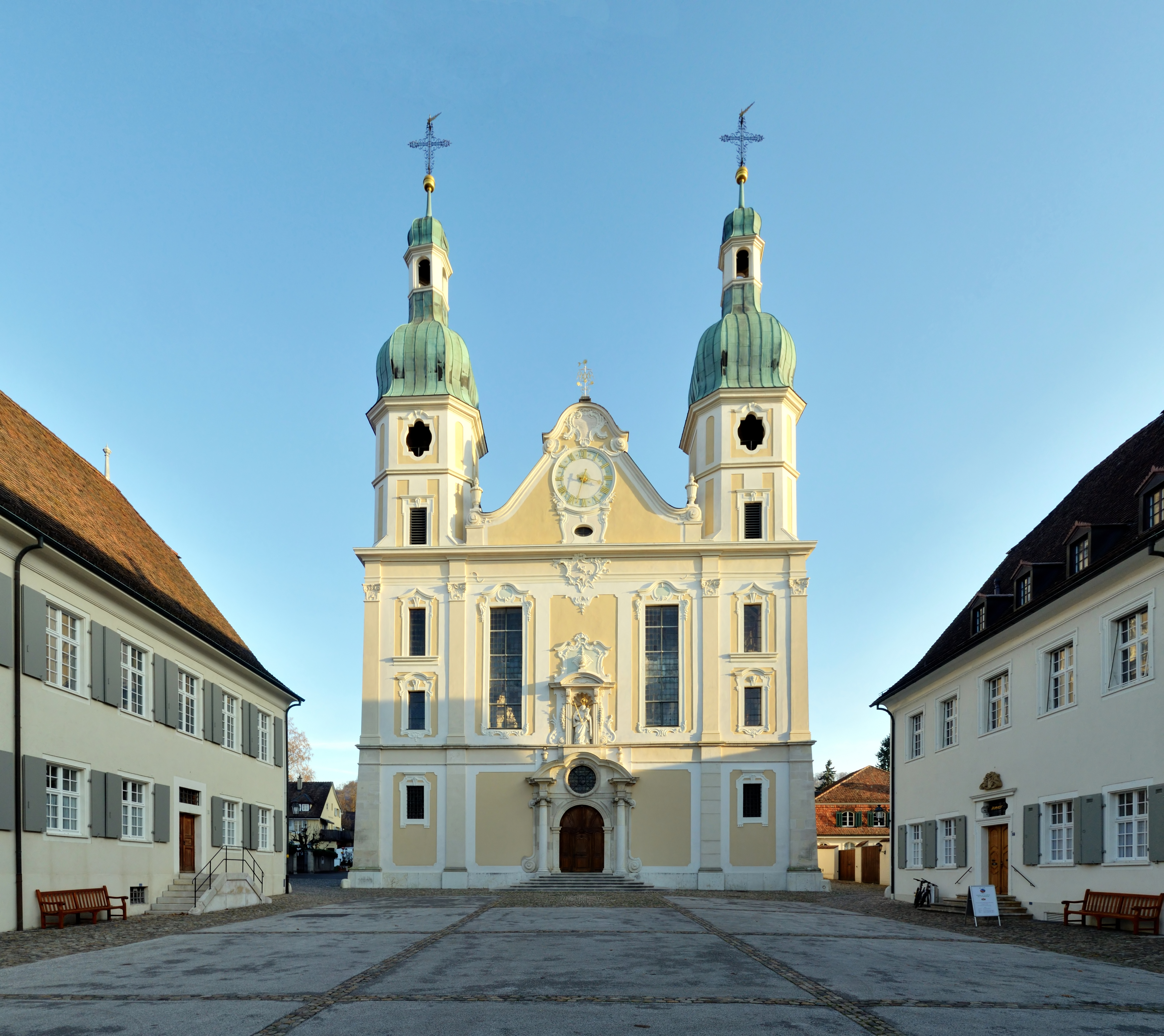 Arlesheim: Cathedral of Arlesheim